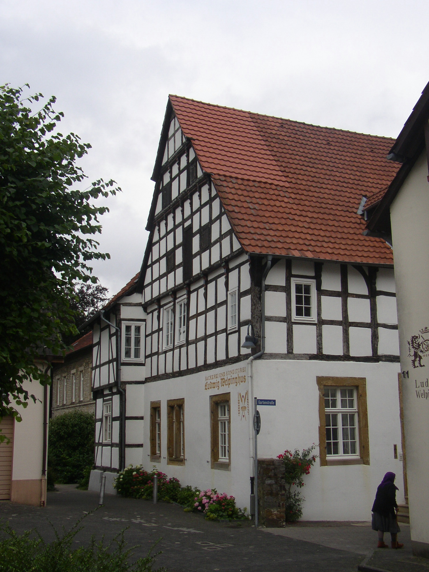 house Kirchstrasse 9 in Borgholzhausen, County of Gütersloh, Germany